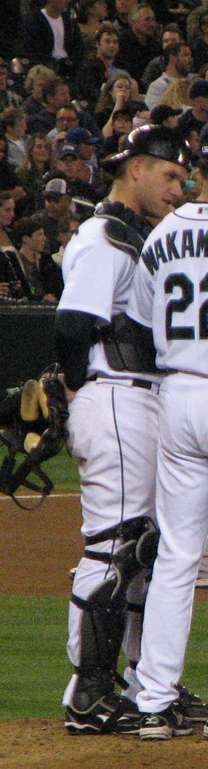 Adam Moore